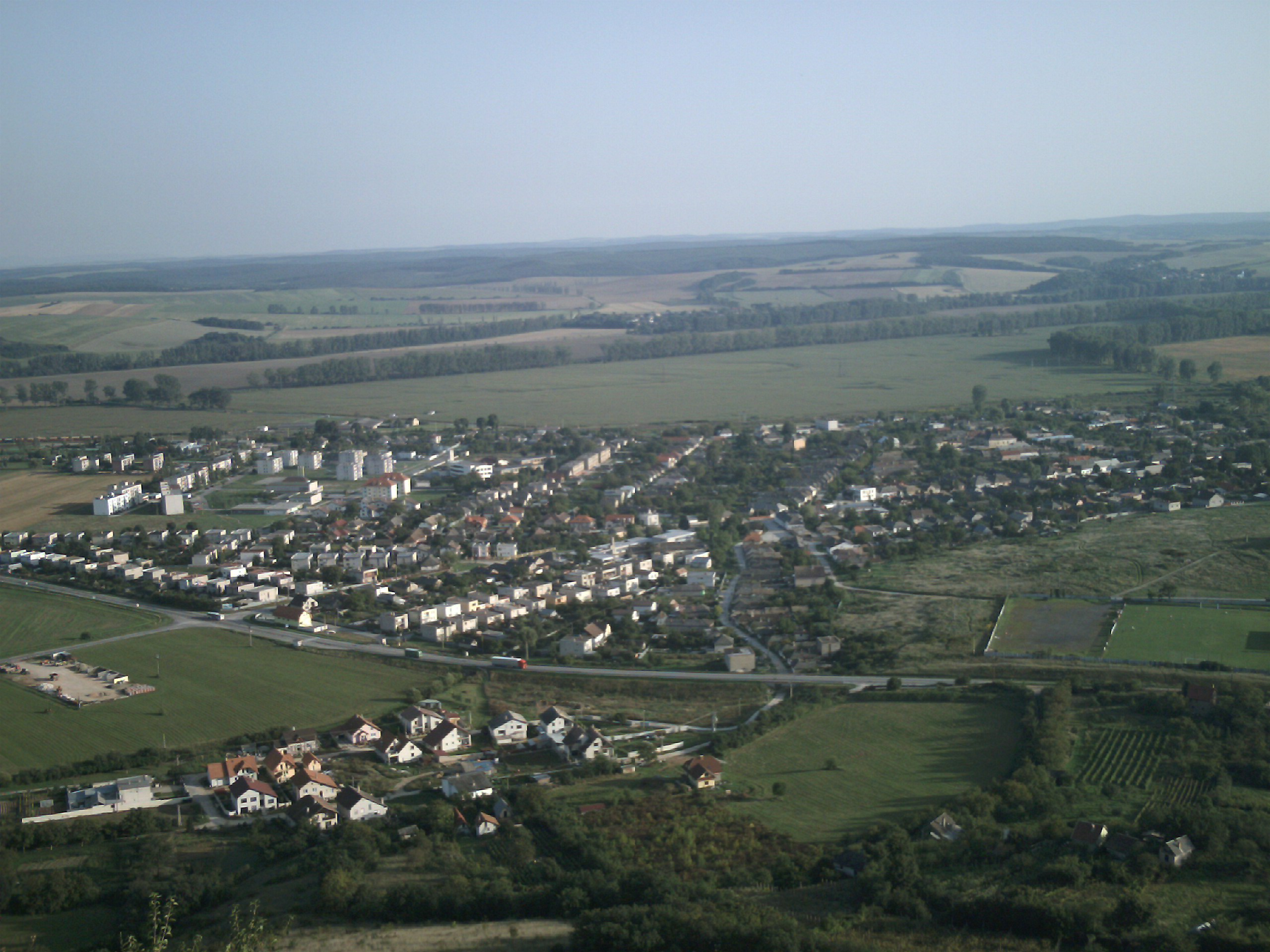 Turna n. Bodvou- City in Slovakia, view from Turna castle